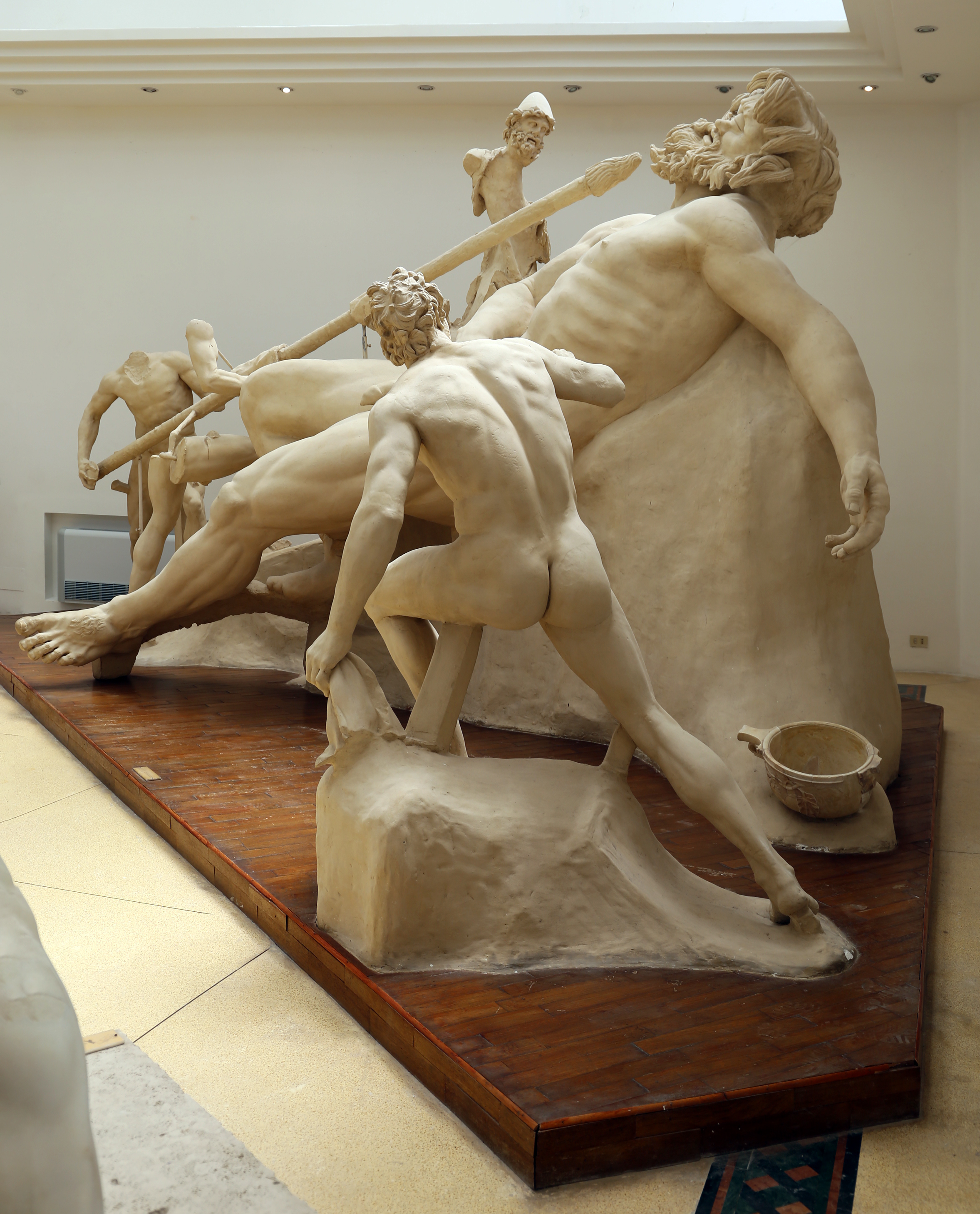 Polyphemus group of Sperlonga